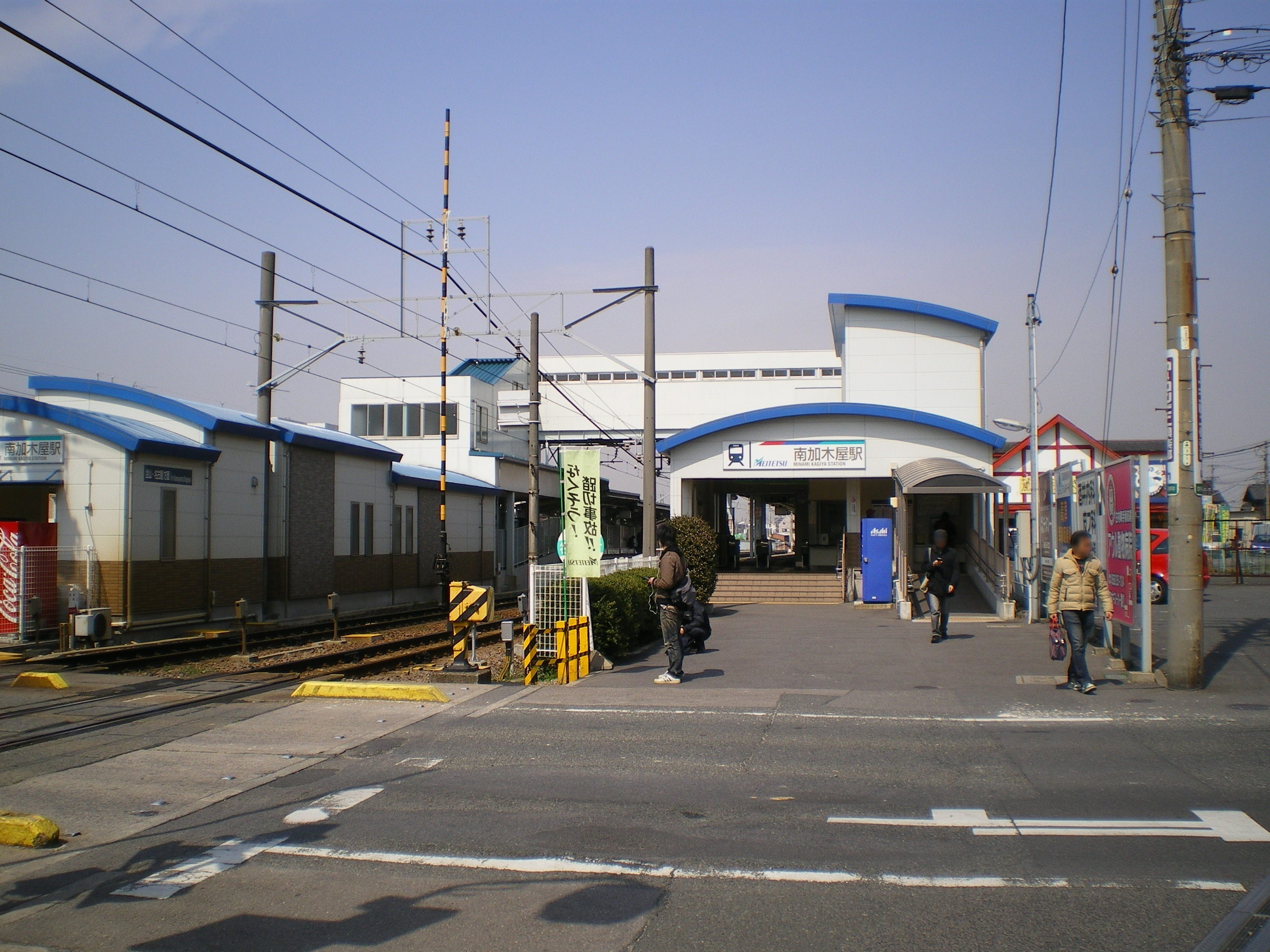 Nagoya Railroad Kowa Line Minami-Kagiya Station Building